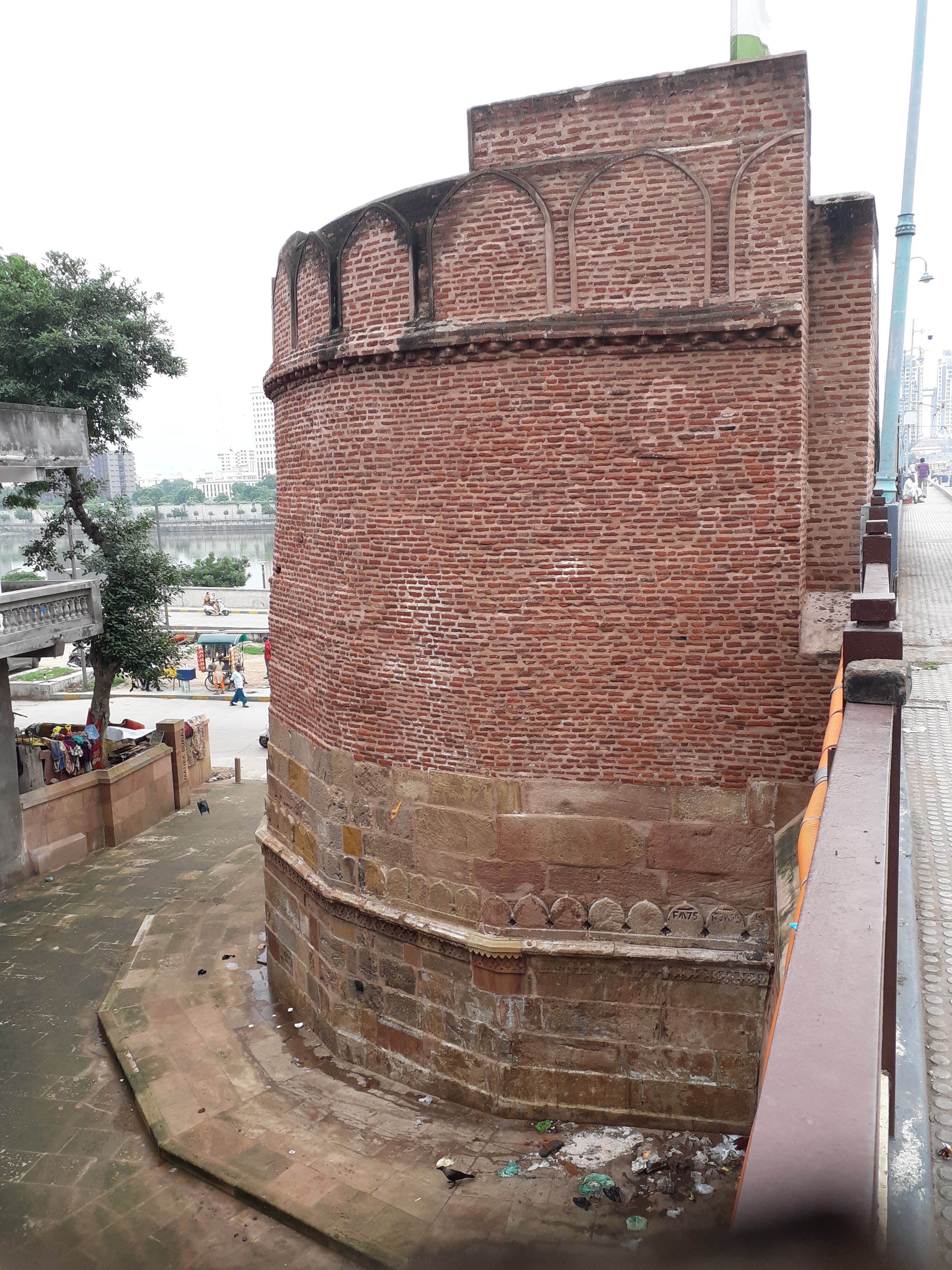 This is Manek Burj..Laid down by Sultan Ahemadshah in 26 february 1411.